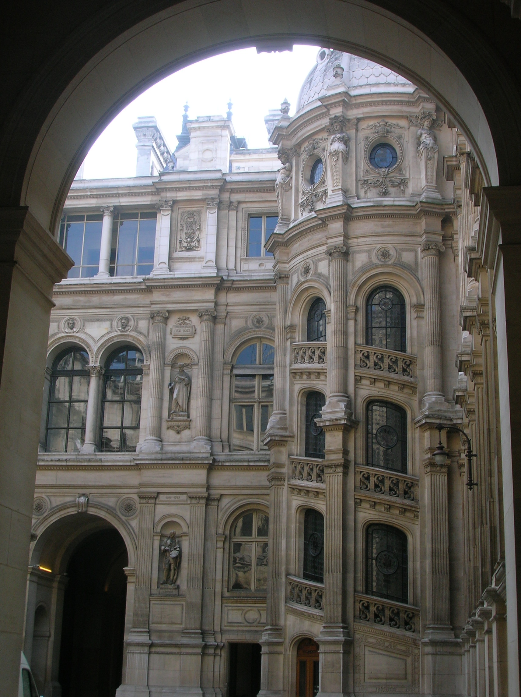 Yard of the Hôtel de Ville of Paris.